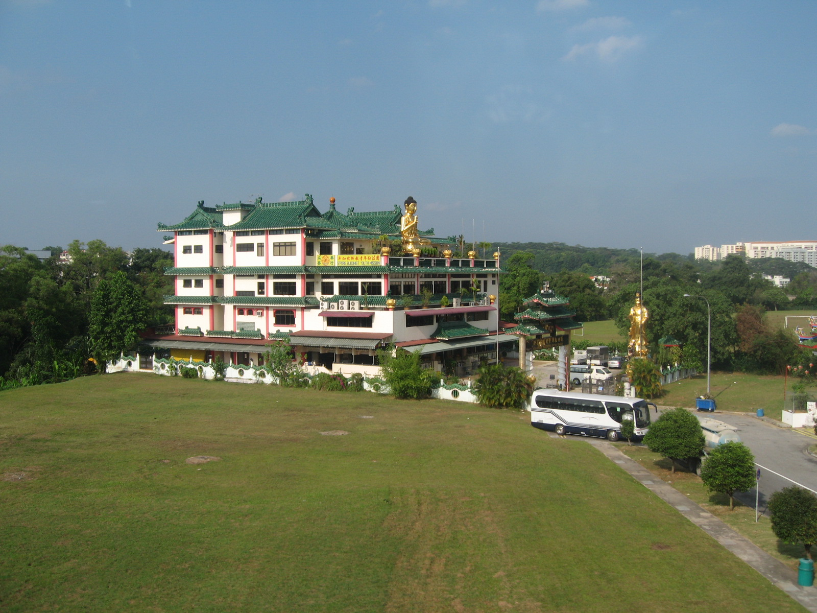 Singapore Buddhist Youth Mission Building.